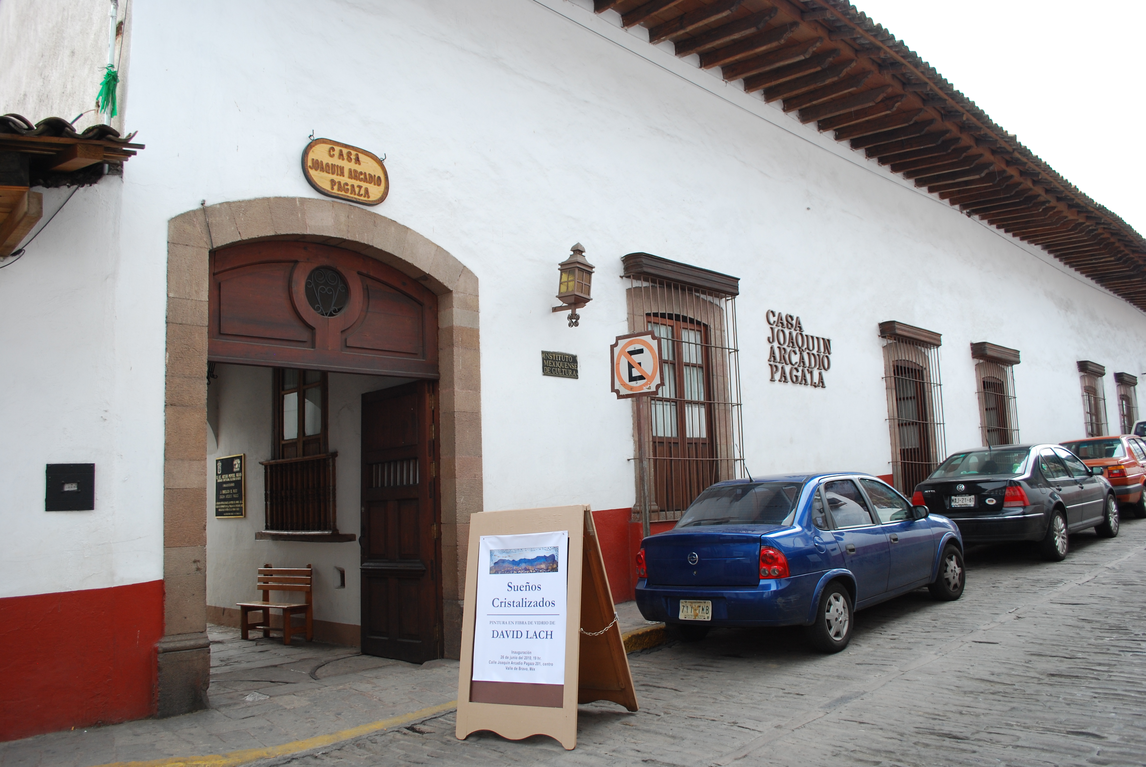 Joaquin Arcadio Pagala house in Valle de Bravo, Mexico